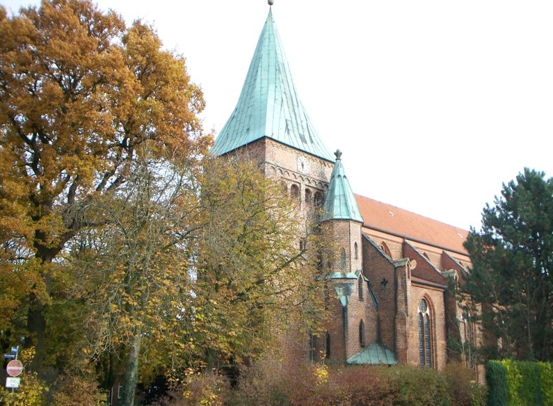 Felicianuskirche in Weyhe, Lower Saxony, Germany